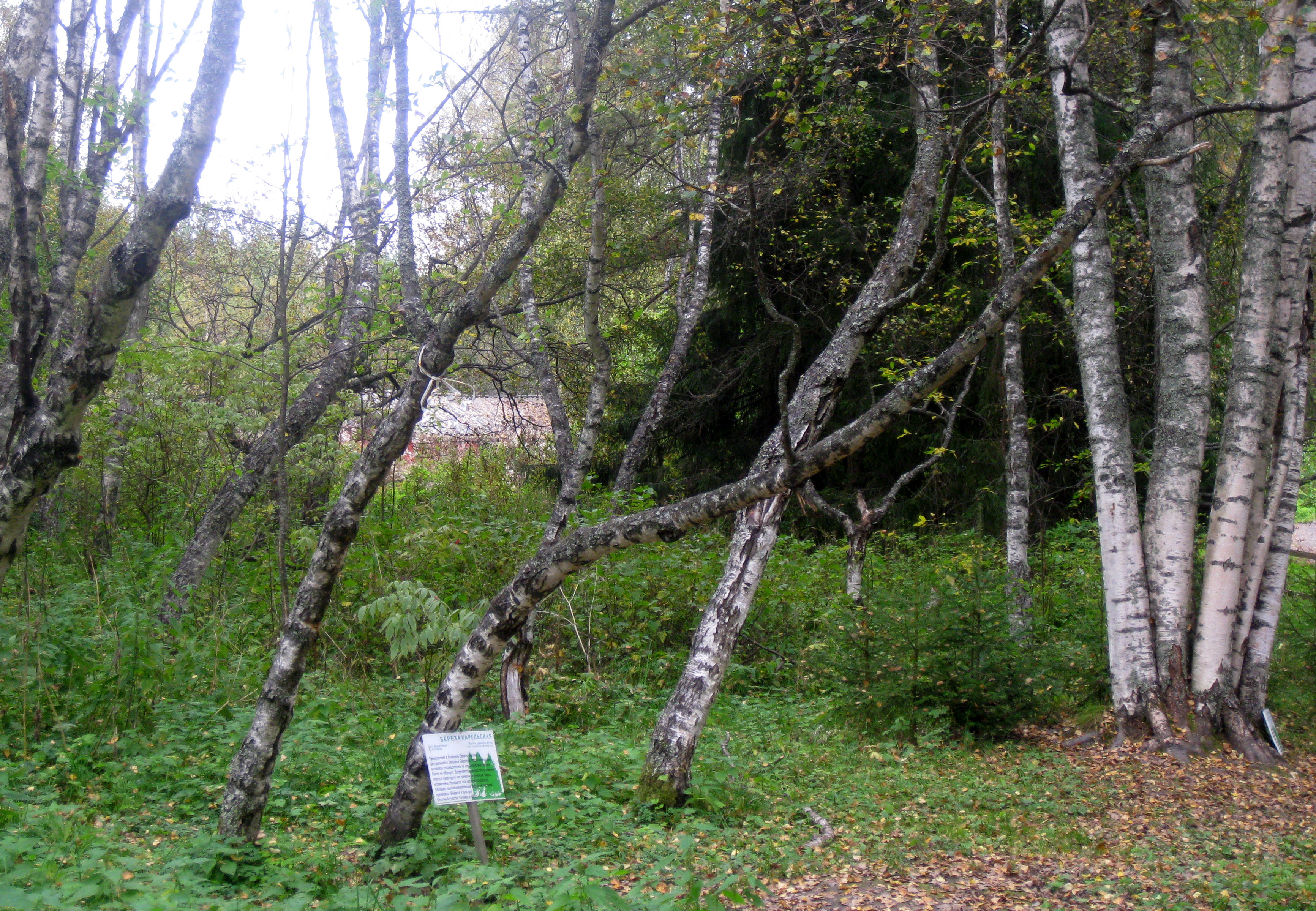 Grove of Karelian birch trees at Kivach Nature Reserve, Betula pendula Roth var. carelica (Mercklin), the autumn.